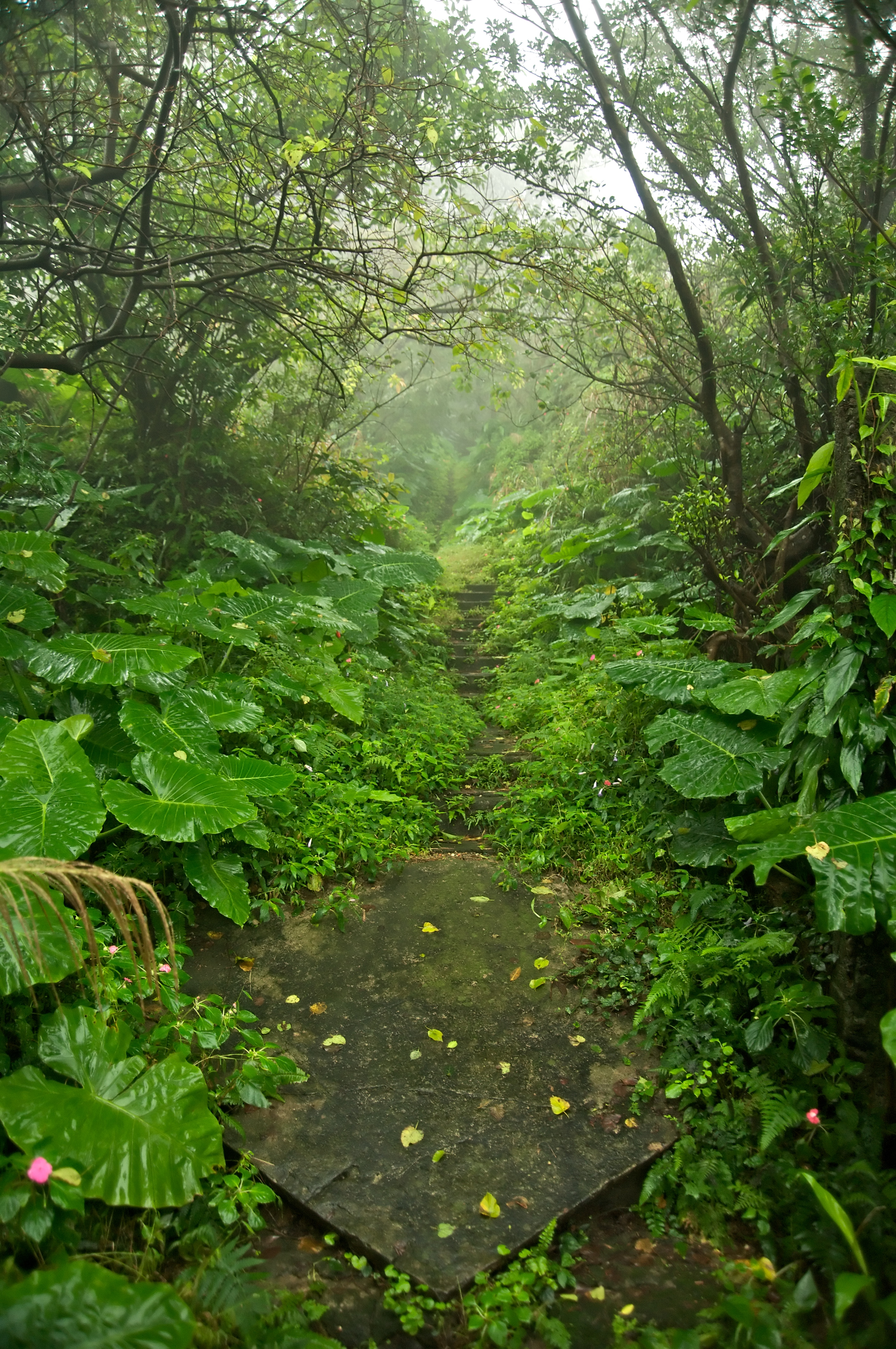 Jinguashi